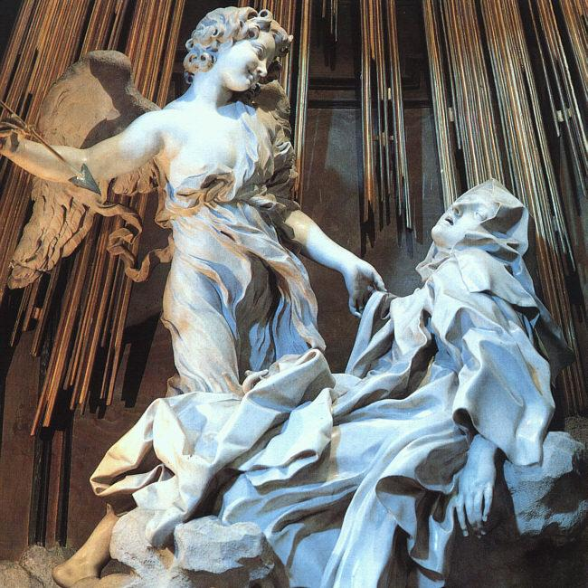 Closer view of central figures, Ecstasy of Saint Theresa